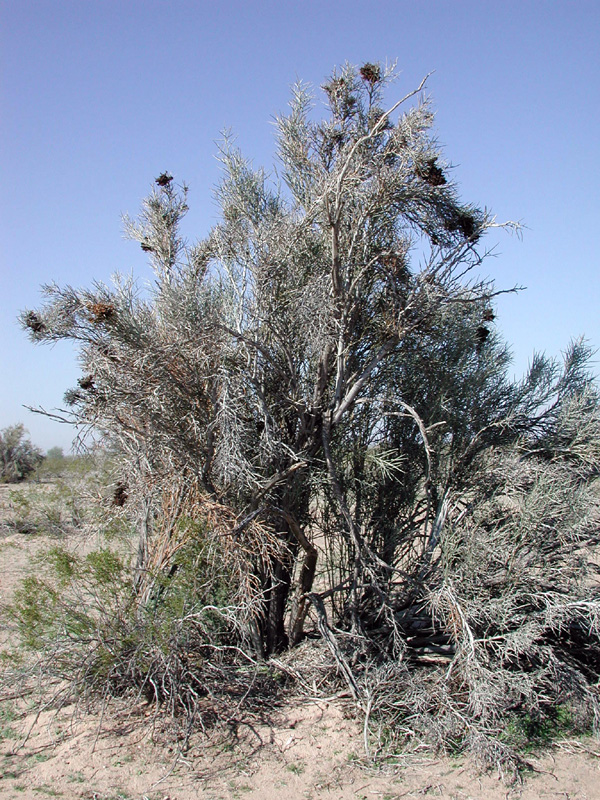 Castela emoryi, Crucifixion Thorn, sw of Arlington, Maricopa County, Arizona, USA.